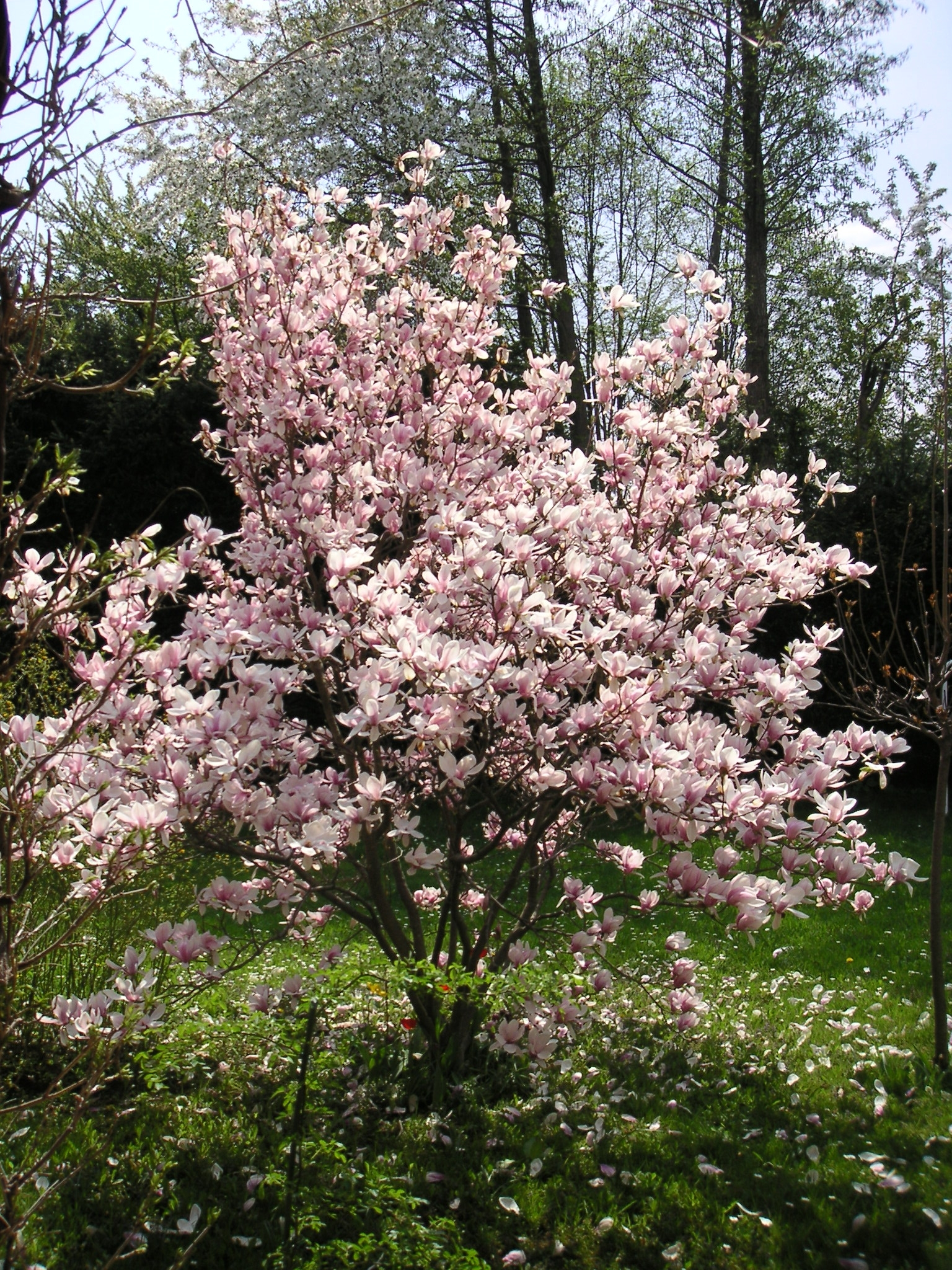 Magnolia in spring.